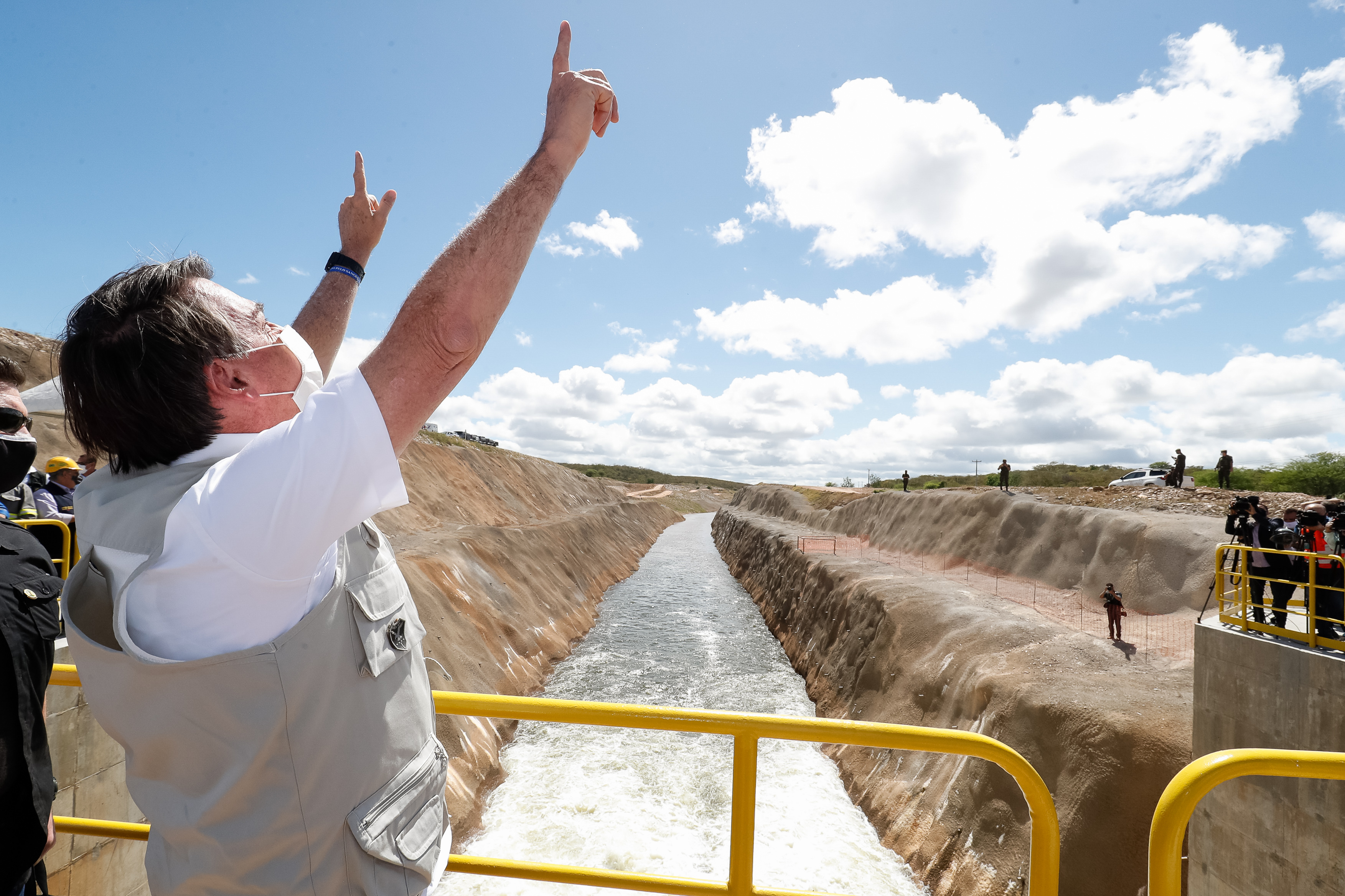 (Penaforte - CE, 26/06/2020) Presidente da República Jair Bolsonaro posa para fotografia no canal de transposição do Rio São Francisco. Foto: Alan Santos /PR